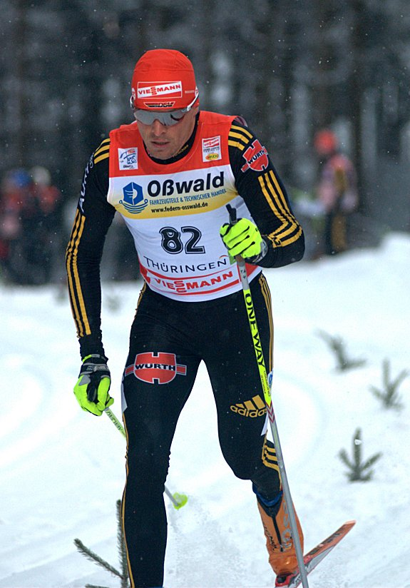 Tobias Angerer at the Tour de Ski 2010 in Oberhof